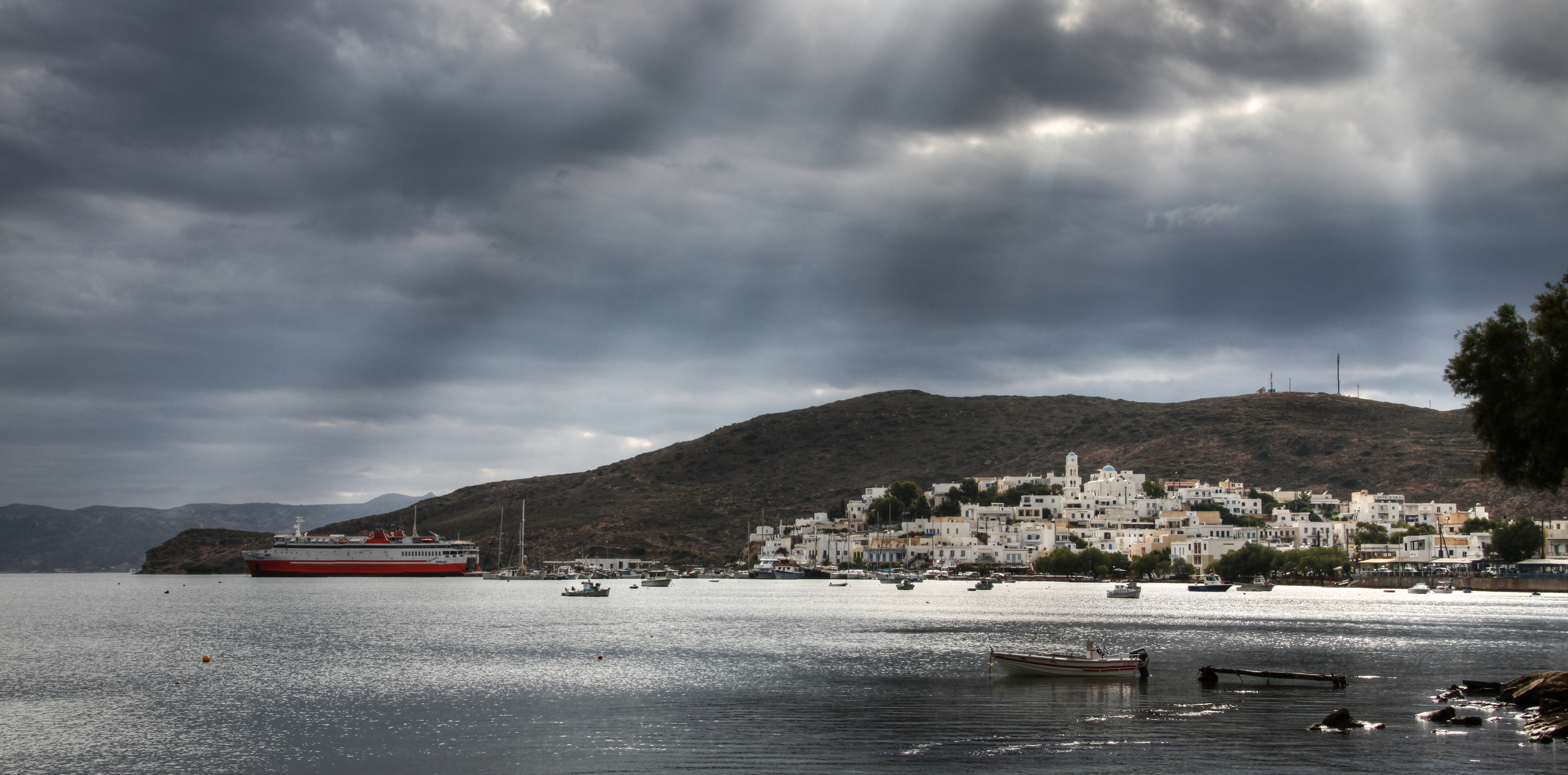 Adamas (in Greek means "Diamond"), the harbor town of island Milos, after a rainy day. Cyclades, Greece.